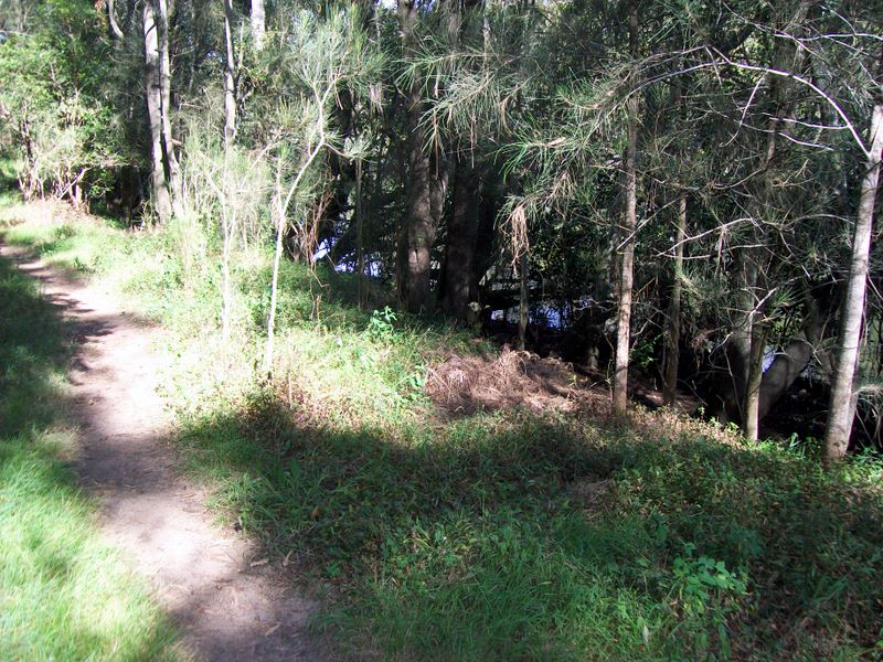 Site where the bodies of Dr. Gilbert Bogle & Mrs. Margaret Chandler were found on January 1, 1963. latitude -33.79328 longitude 151.15746. Lane Cove River, Australia. 70 metres south of Fullers Bridge.